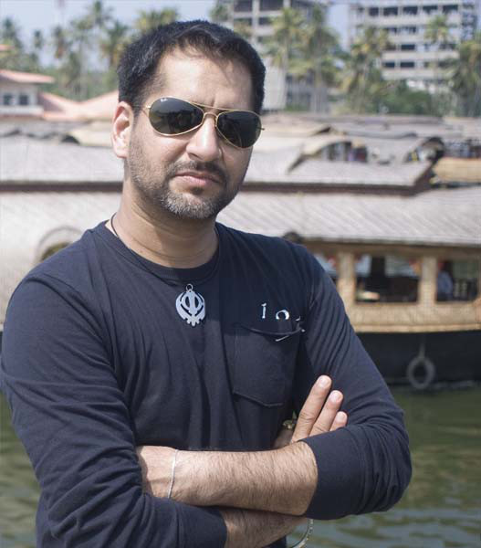 Vikram Bawa (born 16 March 1970) is a noted Indian fashion, automobile and landscape photographer based in Mumbai.